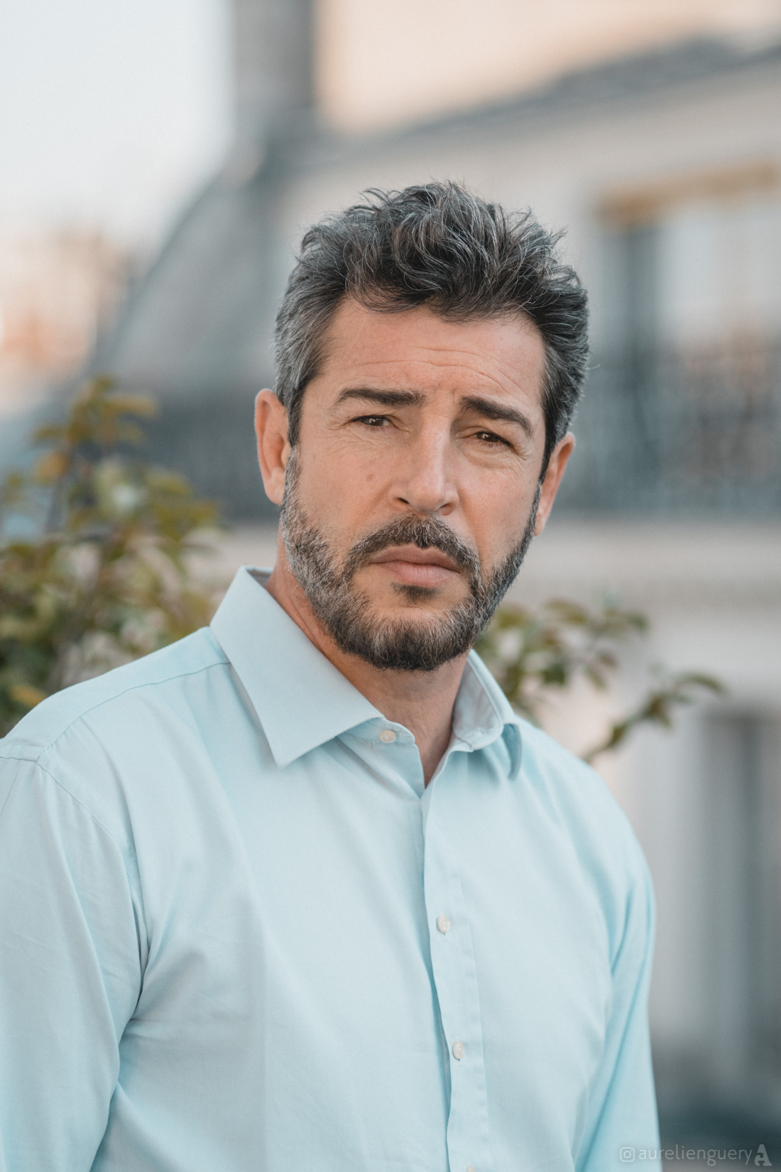 Xavier Lemaître's portrait